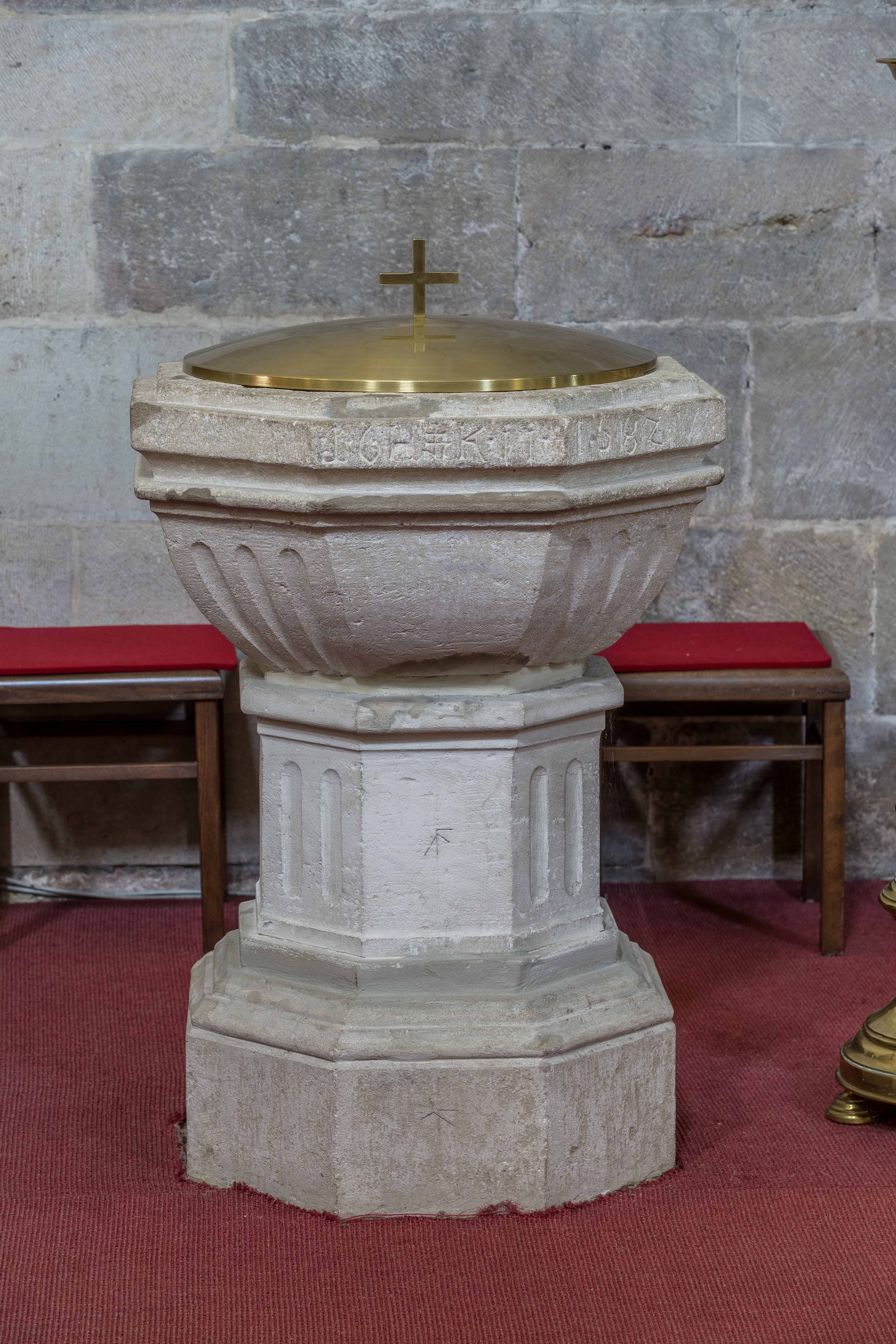 Internal view of the parish church Schöngrabern, Weinviertel, Lower Austria